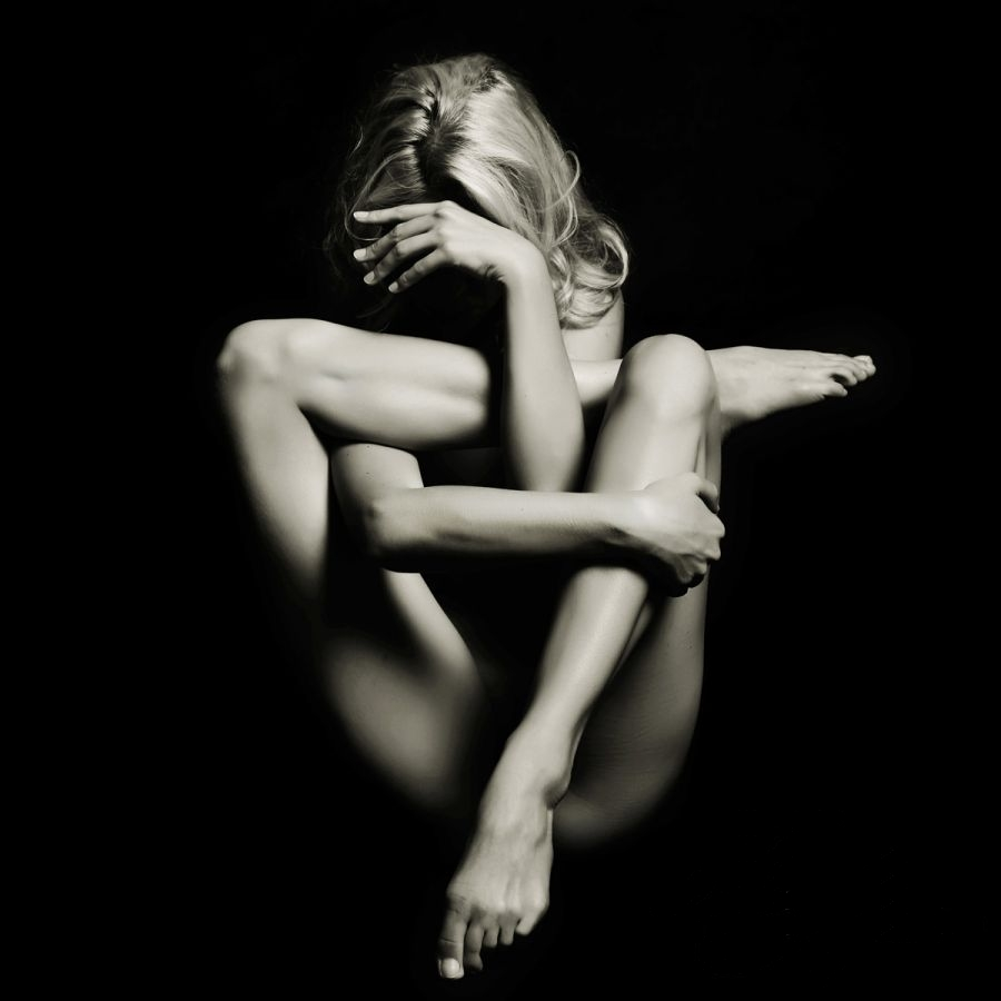 Müller Fanny csomó. No watermark.